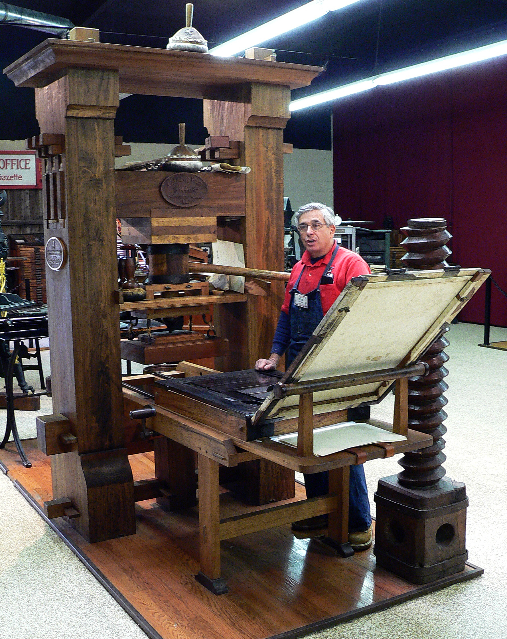 Peter Small demonstrating the use of the Gutenberg press at the International Printing Museum.